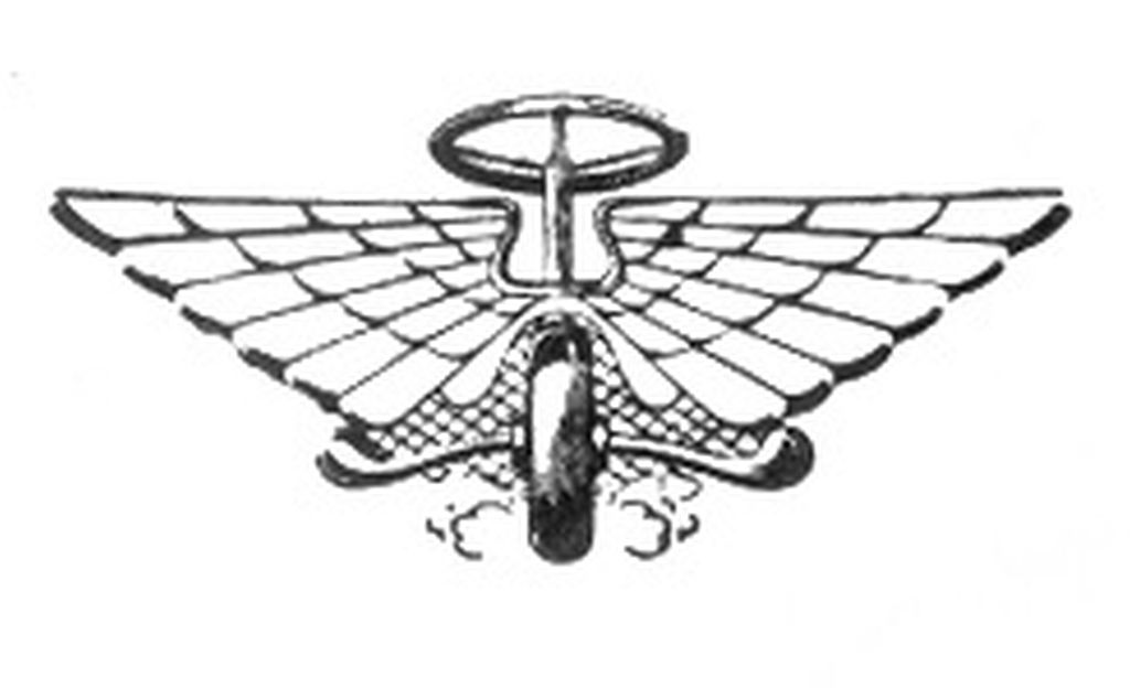 Trademark of the Austin Motor Company